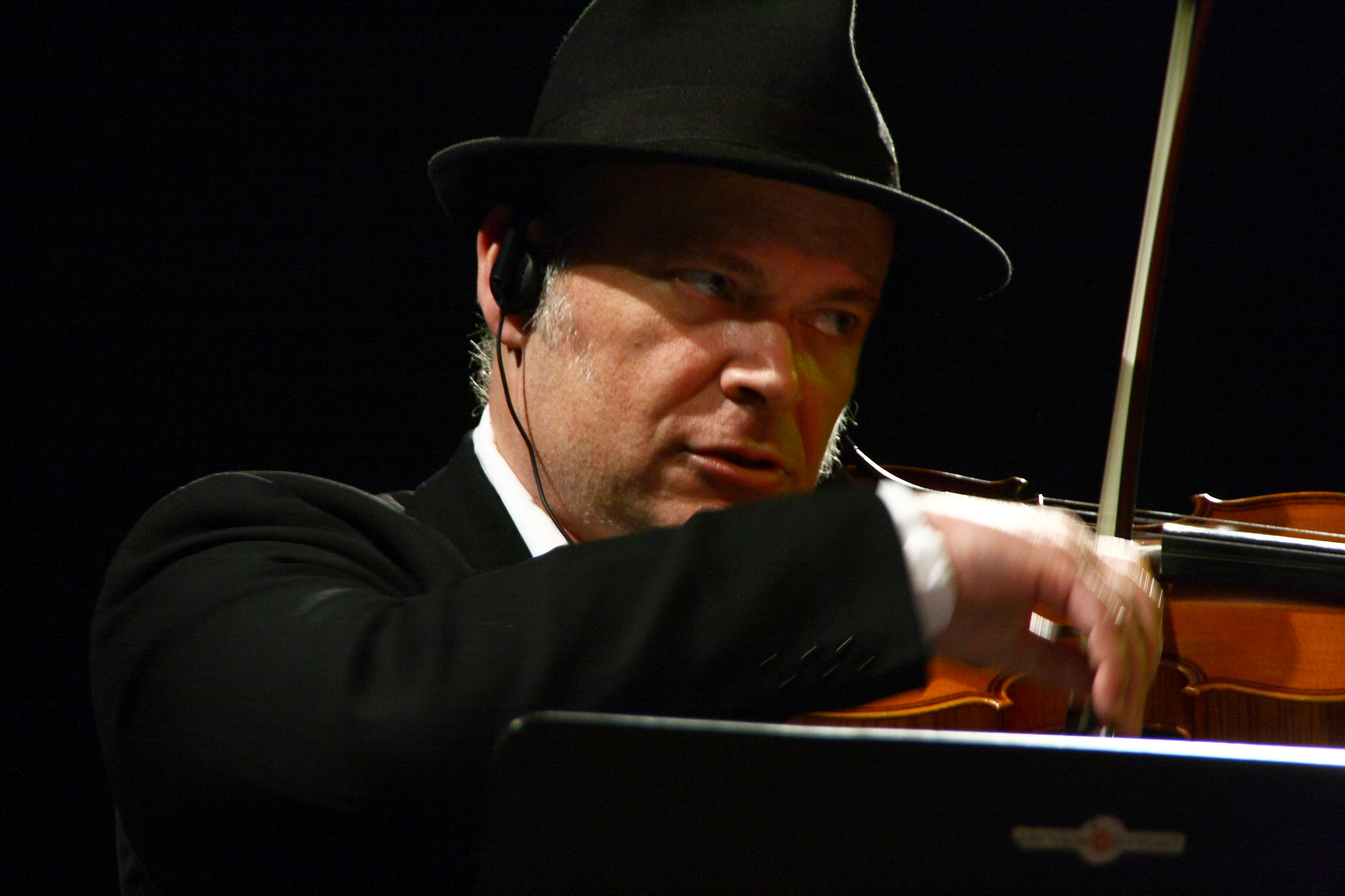 Alexander Bălănescu with his Balanescu Quartet at TFF Rudolstadt 2013.